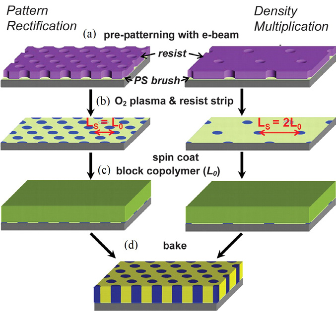 Kemoepitaksia protsess korrastatud heksagonaalsete PS-PMMA radade moodustamiseks